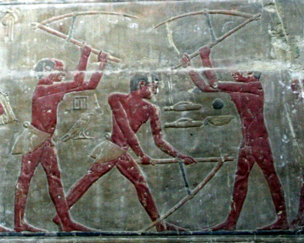 Mastaba of Ti, Saqqara, 5th Dynasty